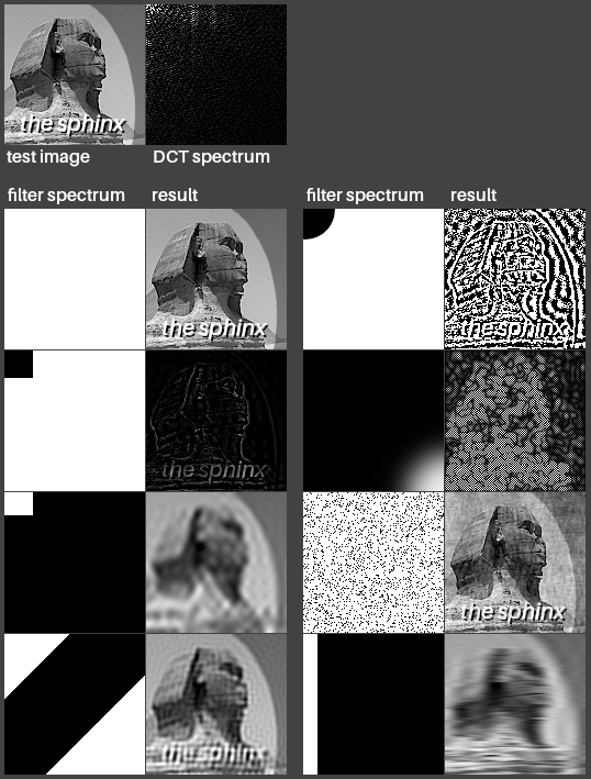 This image shows the effect of applying eight different filters on a test image by multiplying the spectra obtained with discrete cosine transform (DCT). Common effect such as low-pass and high-pass can be seen. I created the image completely myself, using my own photo and Aileron font (CC0, by dot colon) and I release it under CC0. I used GIMP and GNU Octave. The Octave command used to filter the image is (consider CC0 as well): pkg load signal; for i = 1:24, img = uint8(idct2(dct2(double(rgb2gray(imread("~/Documents/fft dct examples/test.png")))) .* rgb2gray(double(imread(strcat("~/Documents/fft dct examples/filter",num2str(i),".png")))))); imwrite(img,strcat("~/Documents/fft dct examples/result",num2str(i),".png")); end The spectrum image is displayed directly without any smart mapping with: imshow(uint8(dct2(rgb2gray(imread("~/Documents/fft dct examples/test.png"))))) Therefore the values are cropped and the spectrum image loses some information about the original image. It is there only to give an idea about what the spectrum looks like.